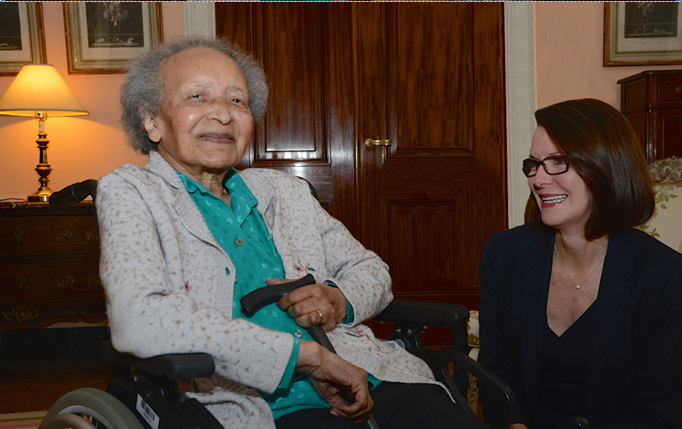 Augusta Chiwy and U.S. Ambassador to Belgium Denise Campbell Bauer